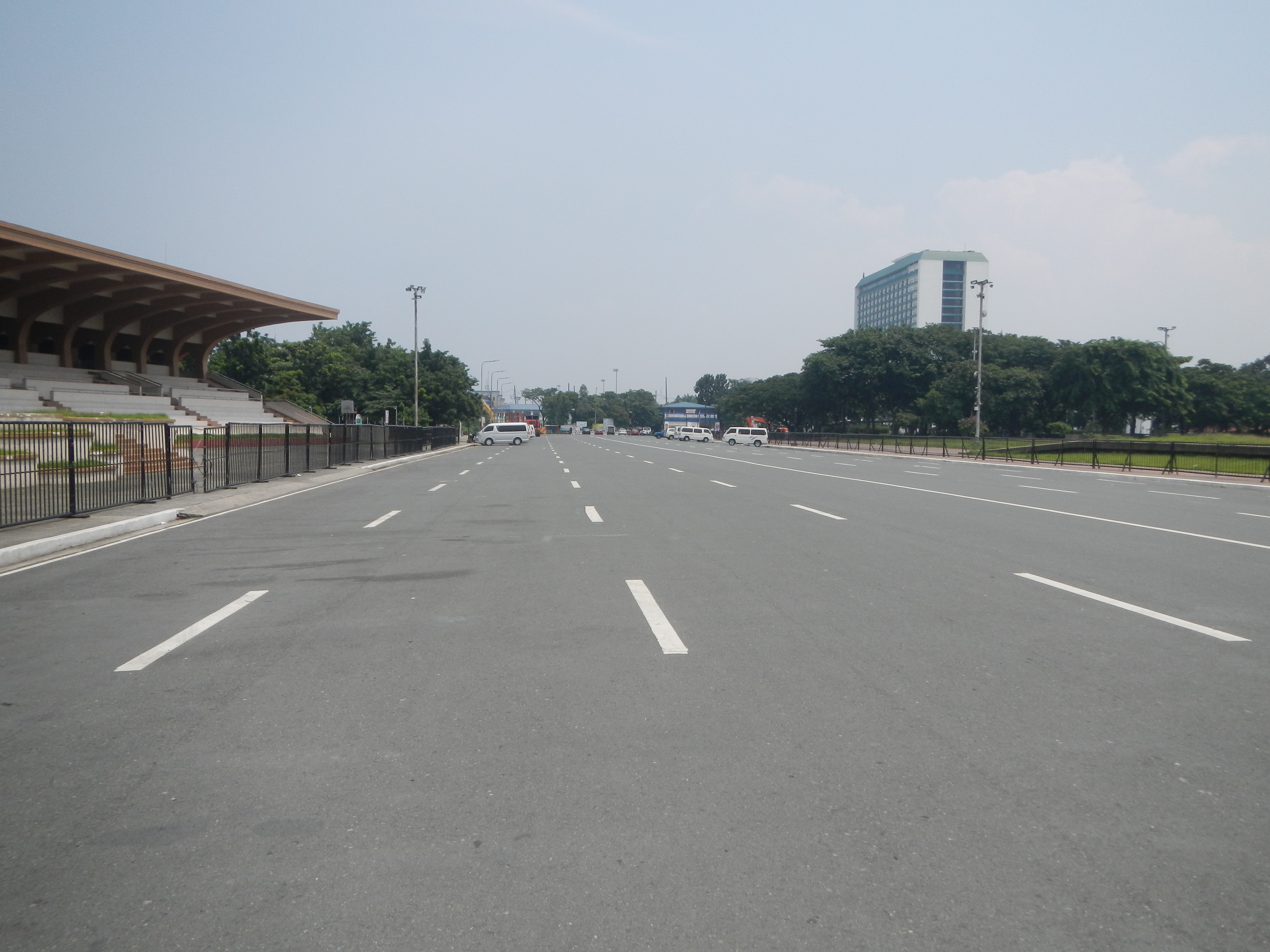 Manila Ocean Park beside Elpidio Quirino Monument in Quirino Grandstand Rizal Park; Note: Judge Florentino Floro, the owner, to repeat, Donor Florentino Floro of all these photos hereby donate gratuitously, freely and unconditionally all these photos to and for Wikimedia Commons, exclusively, for public use of the public domain, and again without any condition whatsoever).